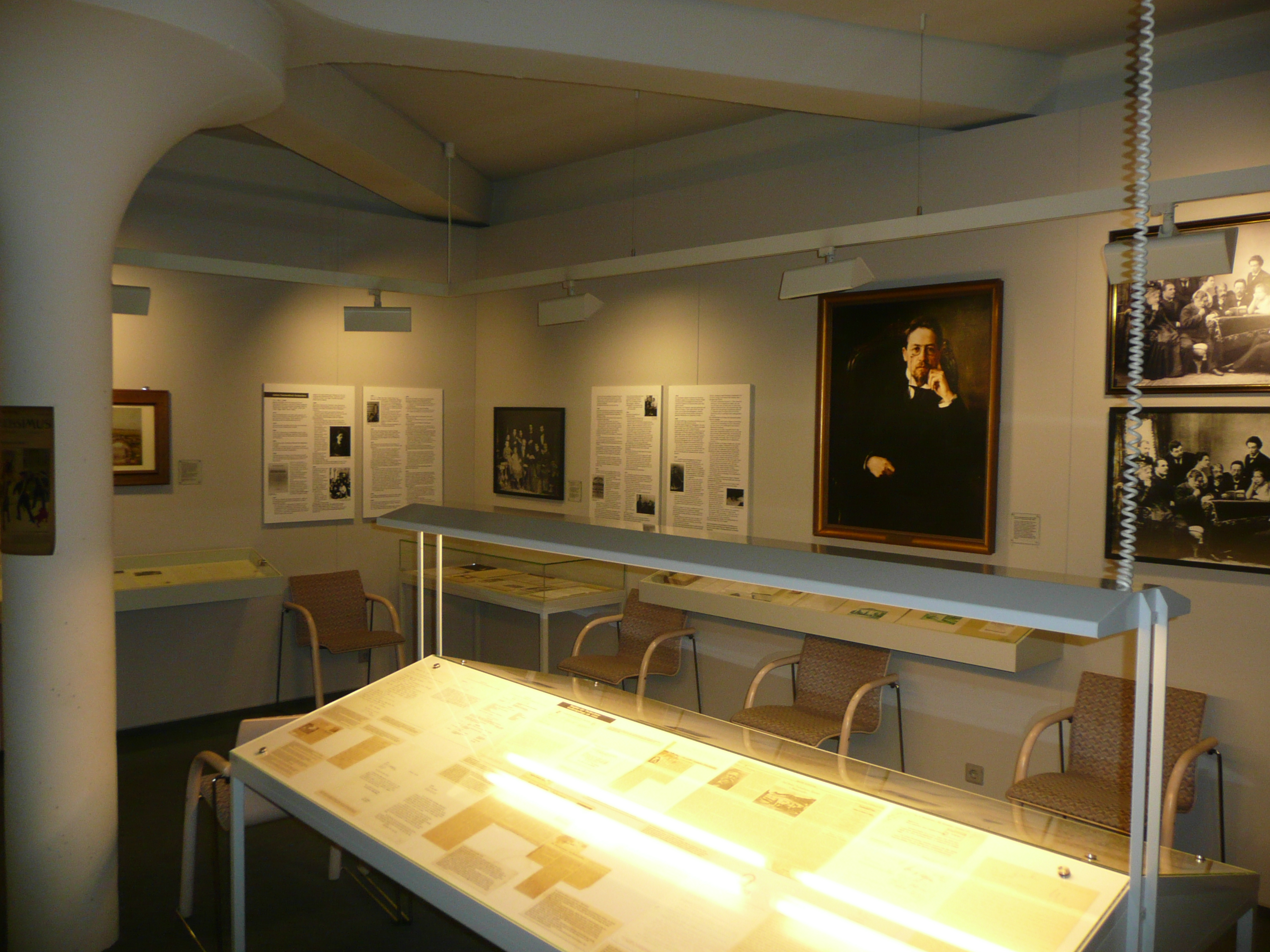 Literature Museum "Chekhov Salon" in Badenweiler